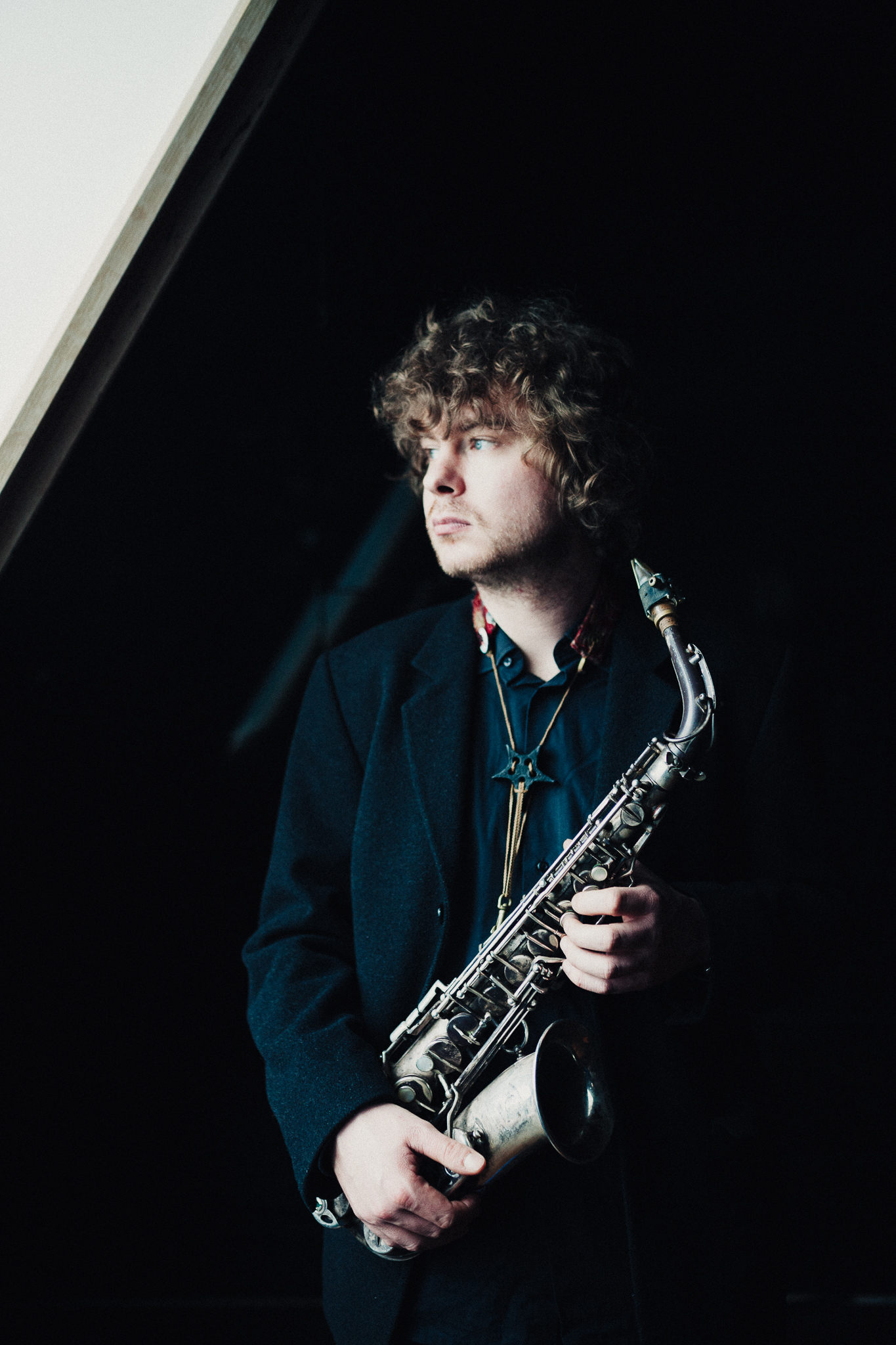 Philipp Gerschlauer